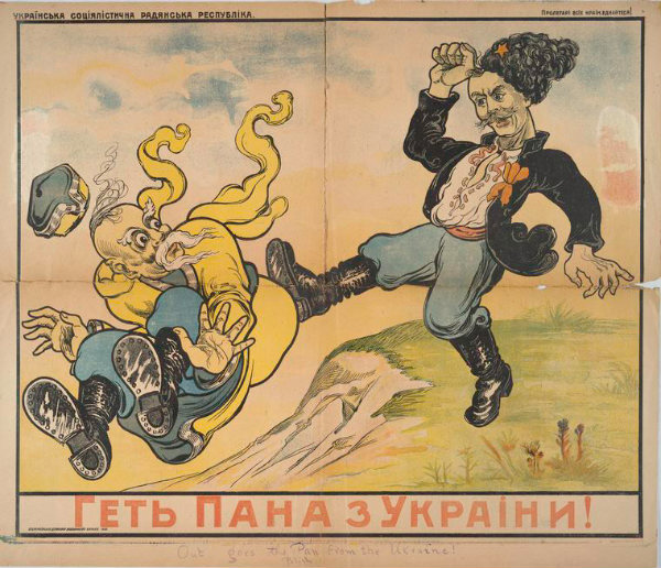 Soviet propaganda picture about red and blue-yellow cossacks